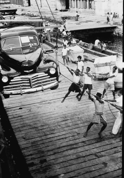 Loading a car during embarkation at the port of Makassar.